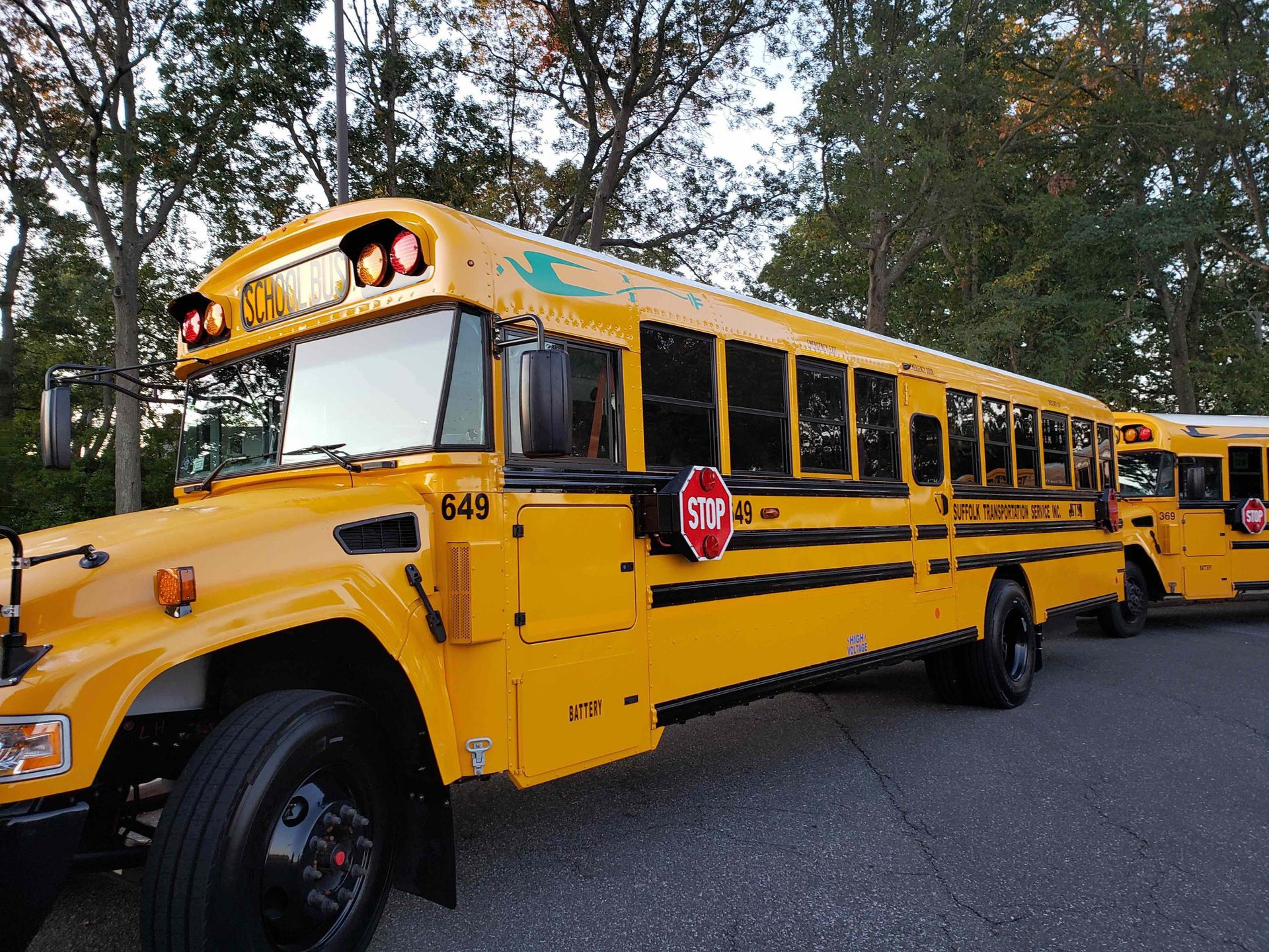 Gen 4 Electric Visions. BAY SHORE, N.Y. — A school bus contractor and district here recently rolled out four new all-electric Blue Bird school buses.